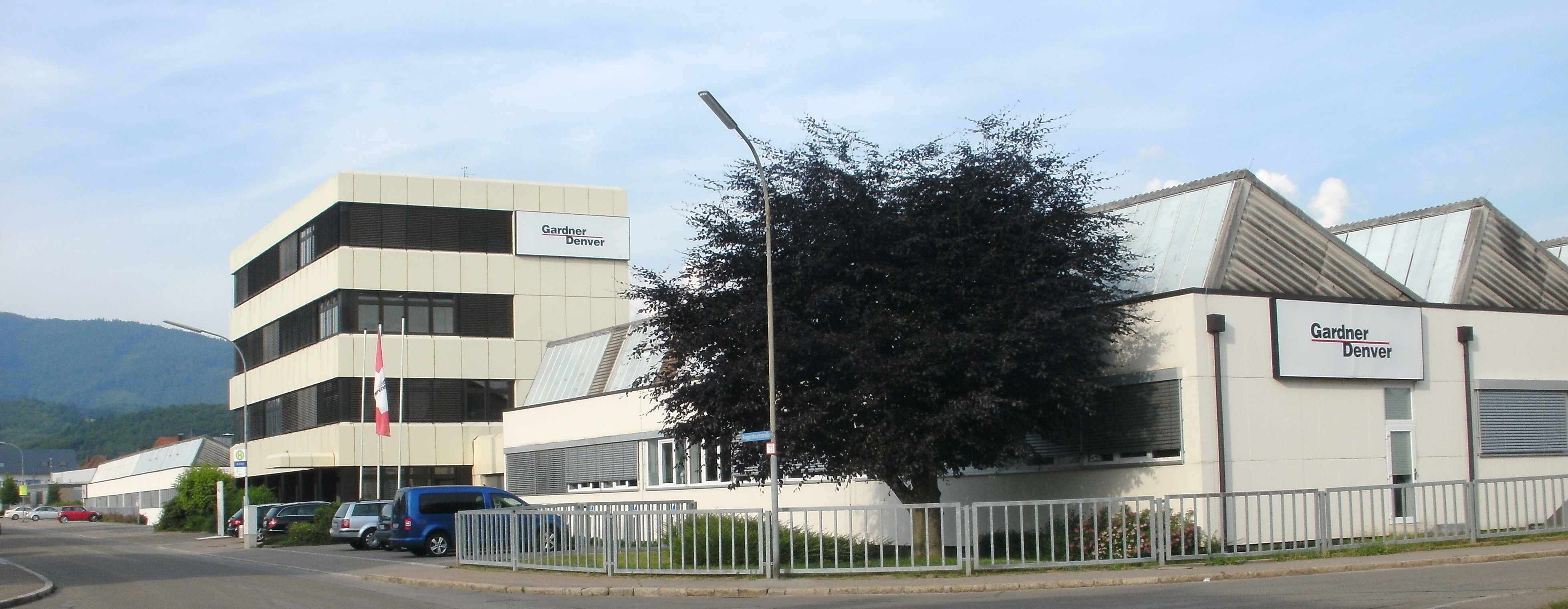 Schopfheim, Germany branch of Gardner Denver Inc., Quincy, Ill.